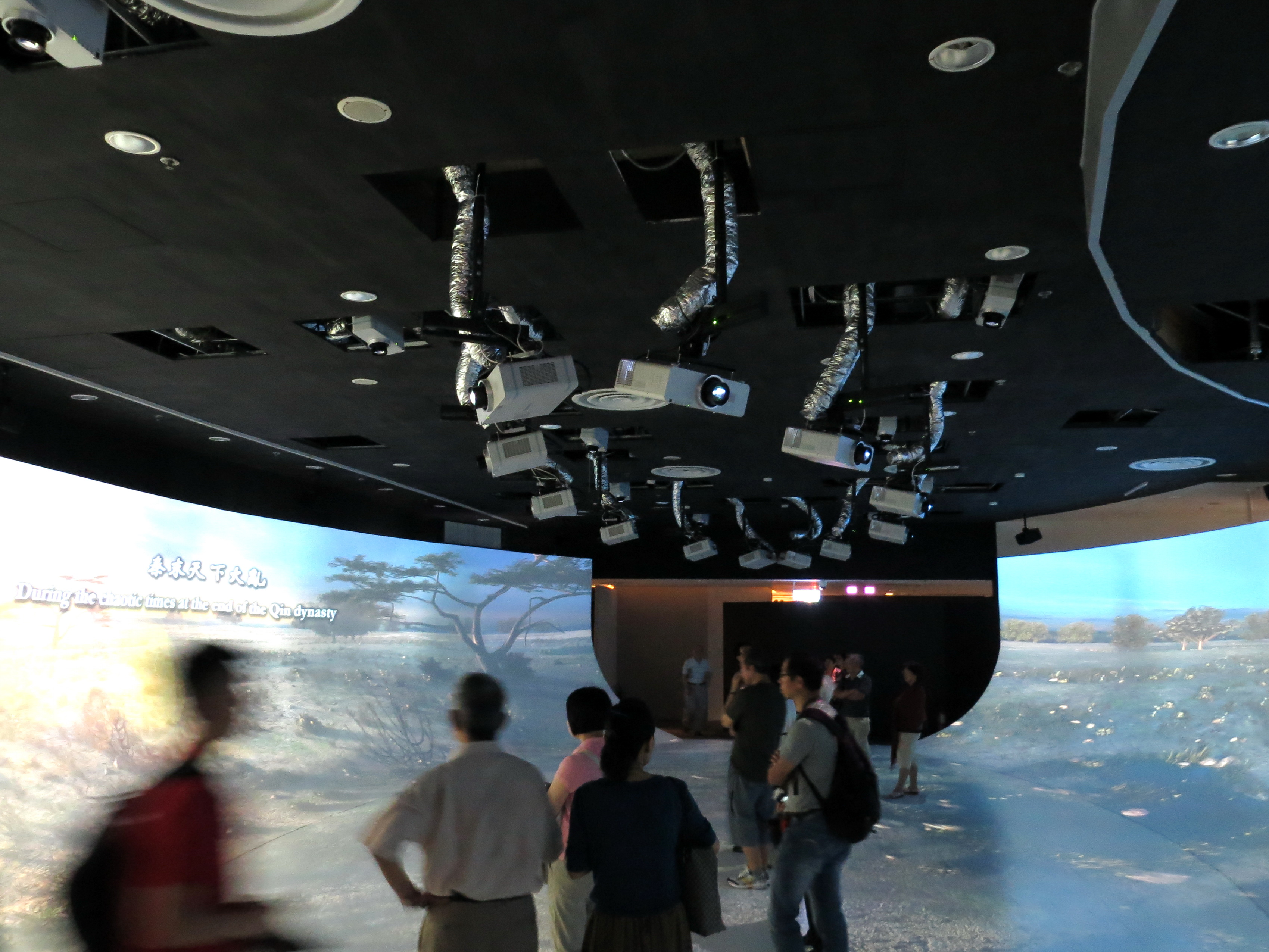 Journey into the Mausoleum of the First Emperor (Multimedia Zones), The Majesty of All Under Heaven Exhibition, Hong Kong Museum of History.